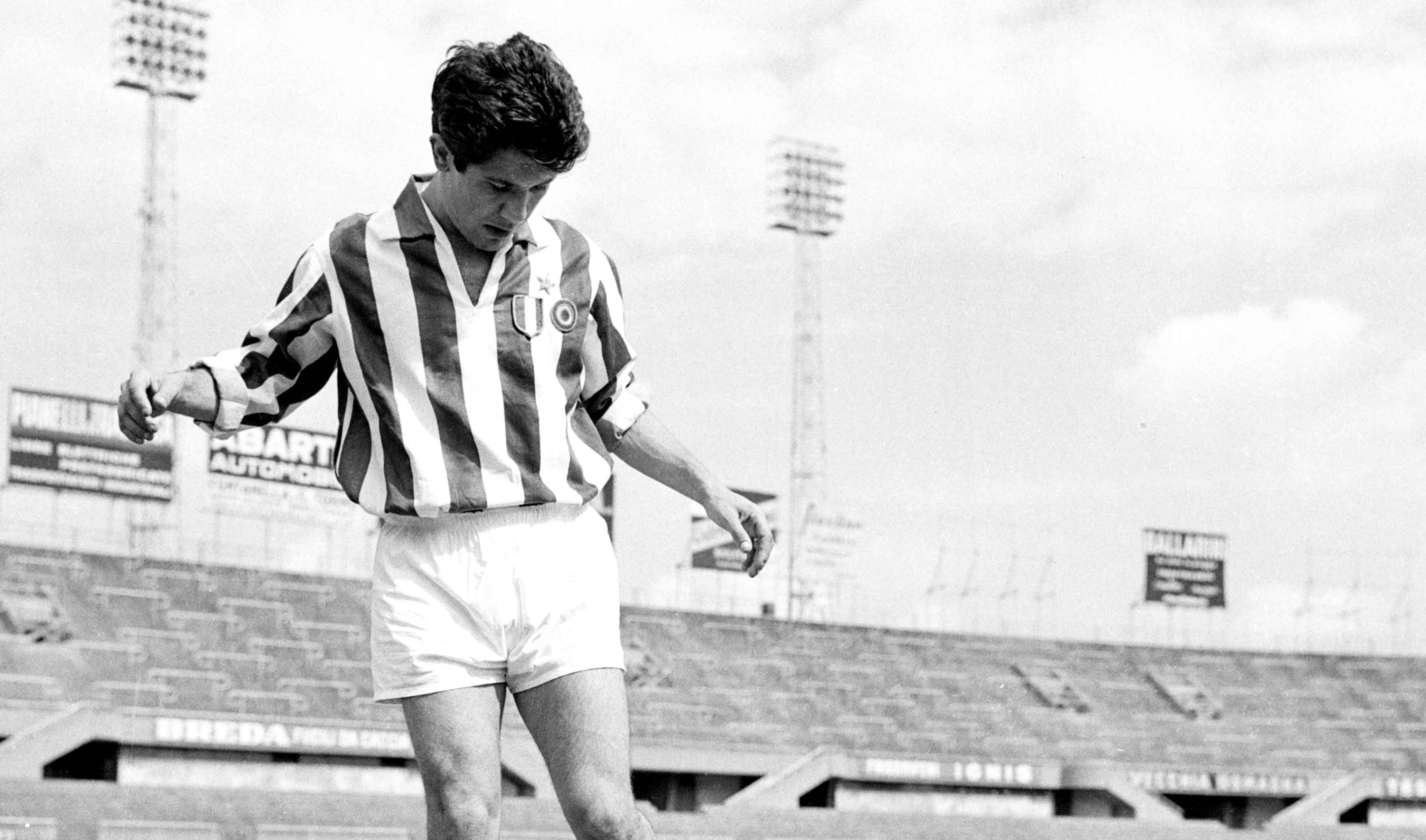 Italian-Argentines footballer Omar Sívori in action with Juventus F.C. in the 1960–61 season, inside the Communal Stadium in Turin.